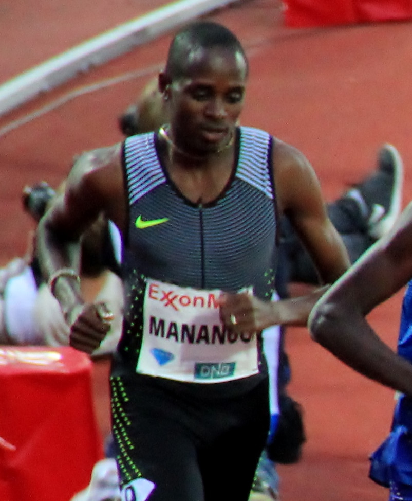 Elijah Manangoi during the Dream mile at the 2016 Bislett Games